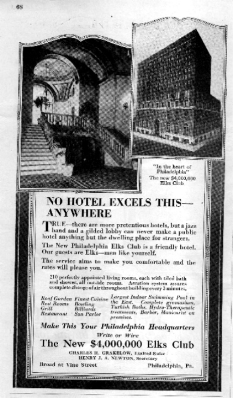 Elk's Lodge BPOE No. 2, later known as the Broadwood Hotel and sometimes the "Philadelphia Athletic Club" after a later tenant, on the NRHP since August 23, 1984. At 306–320 North Broad Street (Broad Street between Vine and Wood) Replaced by a parking lot sometime in the 1980s or 1990s, perhaps involving the construction of the Vine Street Expressway (I-676) This is an advertisement showing the "new Philadelphia Elk's Club" (it was built in 1924). This may have been an advertisement in their magazine or also may have been a matchbook cover - for matches given out in the hotel. The BPOE #2 went bankrupt in 1929 trying to pay for the new building. No copyright notice appears on the work. The ballroom of the hotel was used as a recording studio many times by Eugene Ormandy and the Philadelphia Symphony, as well as by the basketball team the SPHAs (formerly South Philadelphia Hebrew Association), a predecessor of the Philadelphia/San Francisco Warriors.